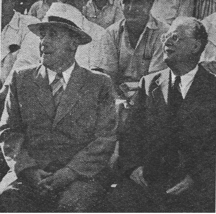 Shabtai Levy (right) and Israel Rokach watching a water-polo match between the Haifa and Tel Aviv teams, 1945